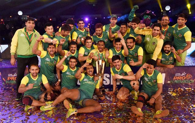 Winning moments of 2016 Pro kabaddi leauge